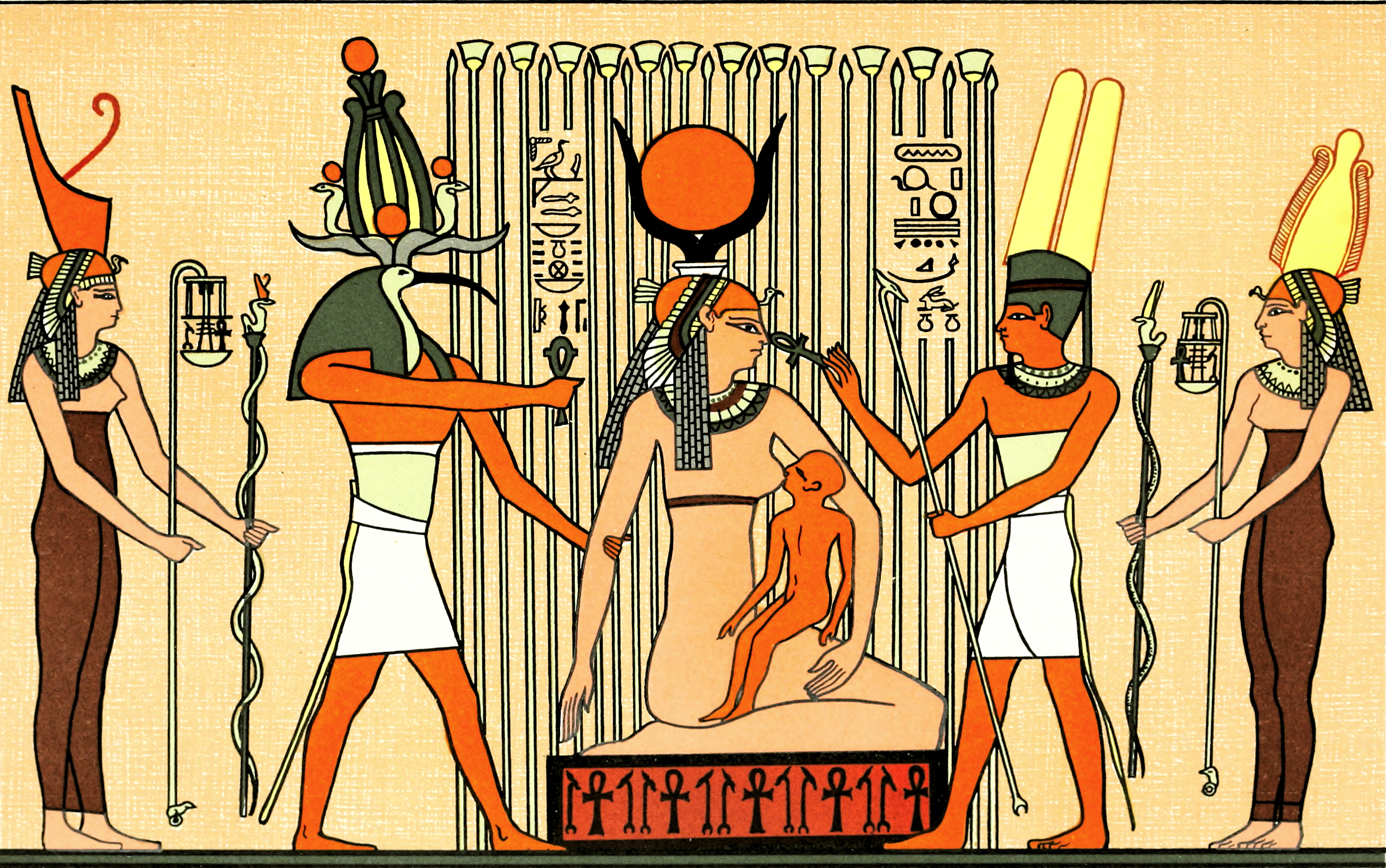 Caption in book reads: "Isis in papyrus swamp suckling Horus"